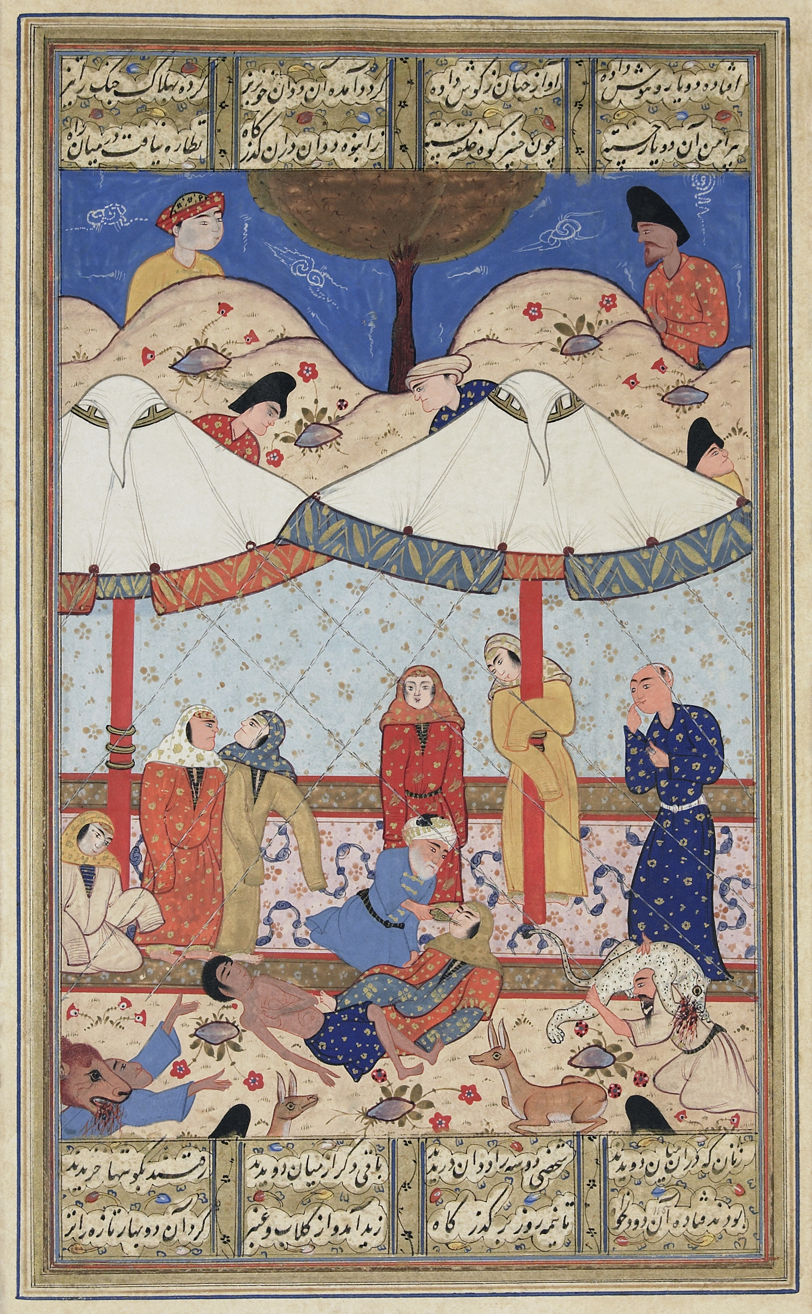 “The fainting of Laylah and Majnun” This folio depicts a well-known passage from the tragic story of Layla and Majnun described in the third book of Nizami's "Khamsah" (Quintet). Forcibly separated by their respective tribes' animosity, forced marriage, and years of exile into the wilderness, these two ill-fated lovers meet again for the last time before their deaths thanks to the intervention of Majnun's elderly messenger. Upon seeing each other in a palm-grove immediately outside of Laylah's camp, they faint of extreme passion and pain. The old man attempts to revive the lovers, while the wild animals protective of Majnun ("The King of Wilderness") attack unwanted intruders. The location and time of the narrative is hinted at by the two tents dressed in the middleground and the dark nighttime sky in the background. The composition's style and hues are typical of paintings made in the city of Shiraz during the second half of the 16th century. Many manuscripts at this time were produced for the domestic market and international export, rather than by royal commission. This particular painting appears to have been executed at the same time as the text of the "Khamsah" proper, which survives on the painting's verso. Script: nasta'liq Dimensions of Painting: Recto: 12.2 (w) x 16.7 (h) cm Dimensions of Written Surface: 12.2 (w) x 20.9 (h) cm .